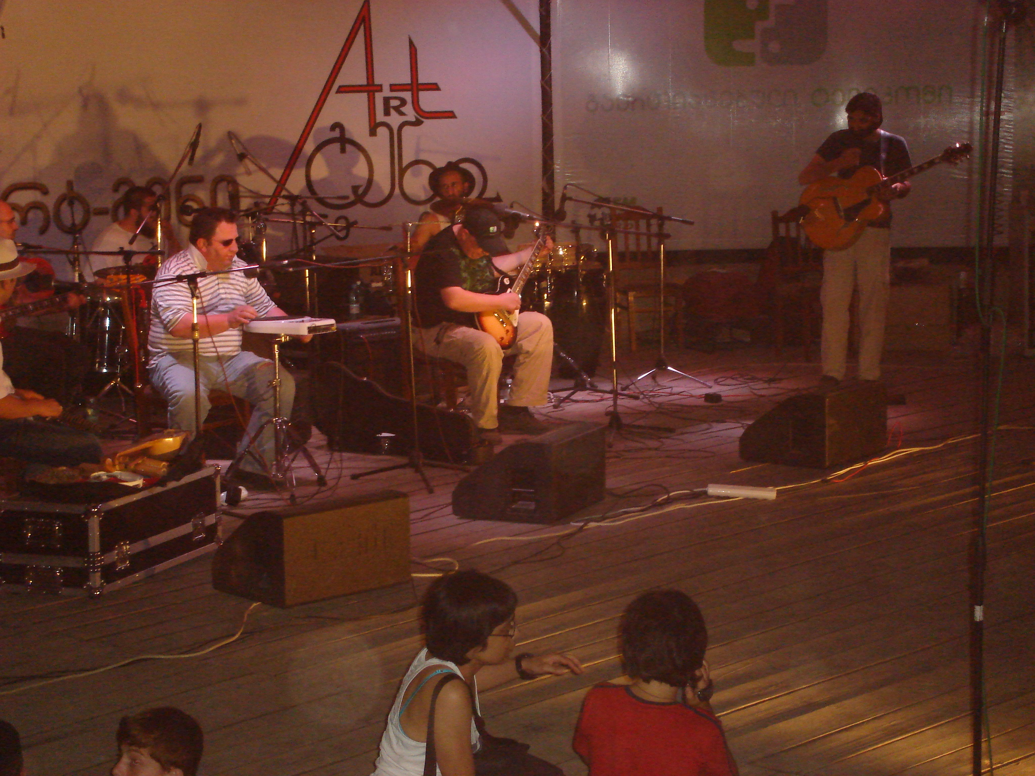 Zaza Korinteli and his folk-rock band Zumbaland performing at the ArtGene festival (Ethnographic Museum, Tbilisi, Georgia).